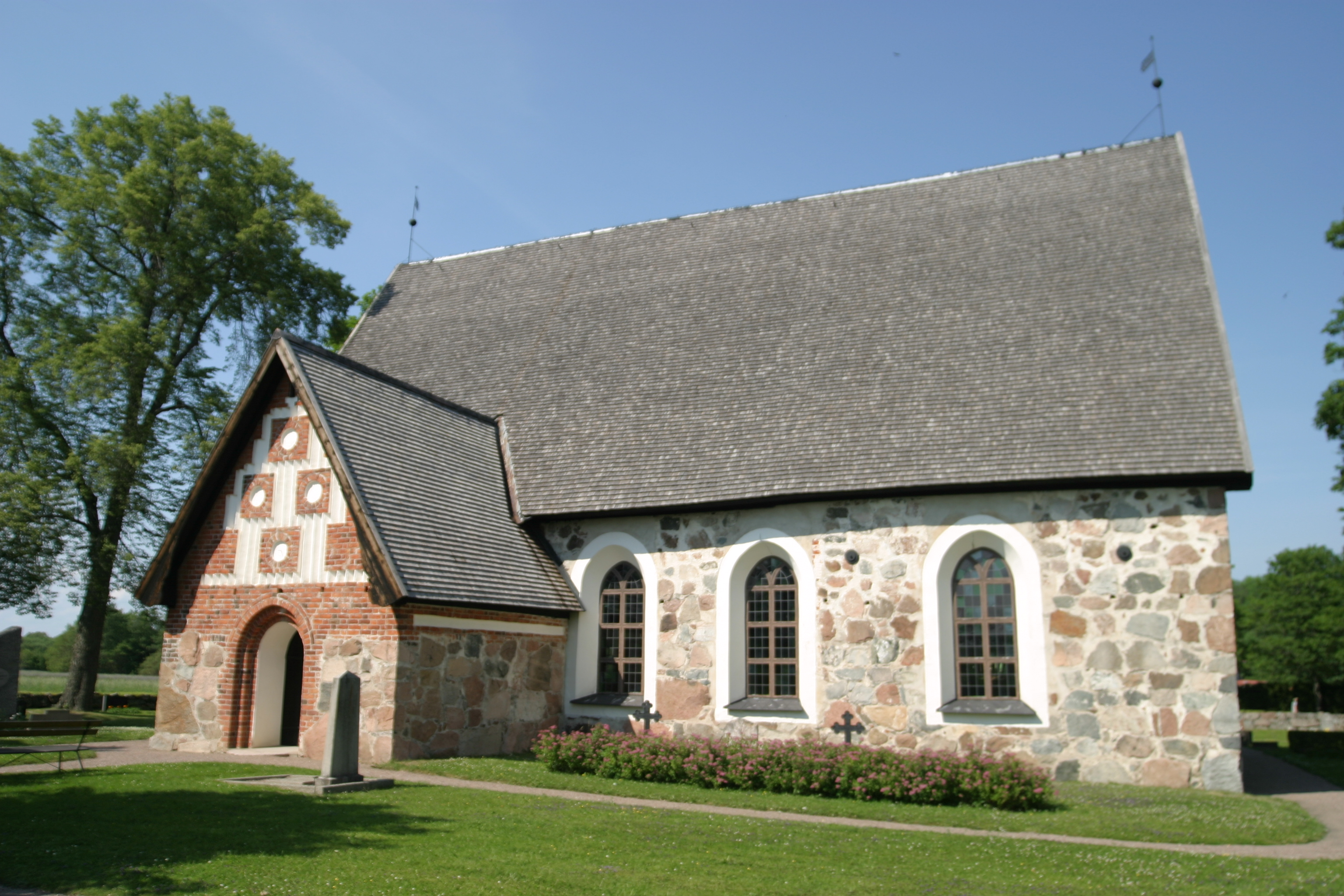 Jumkils church, about 16 km north west of central Uppsala, Sweden.